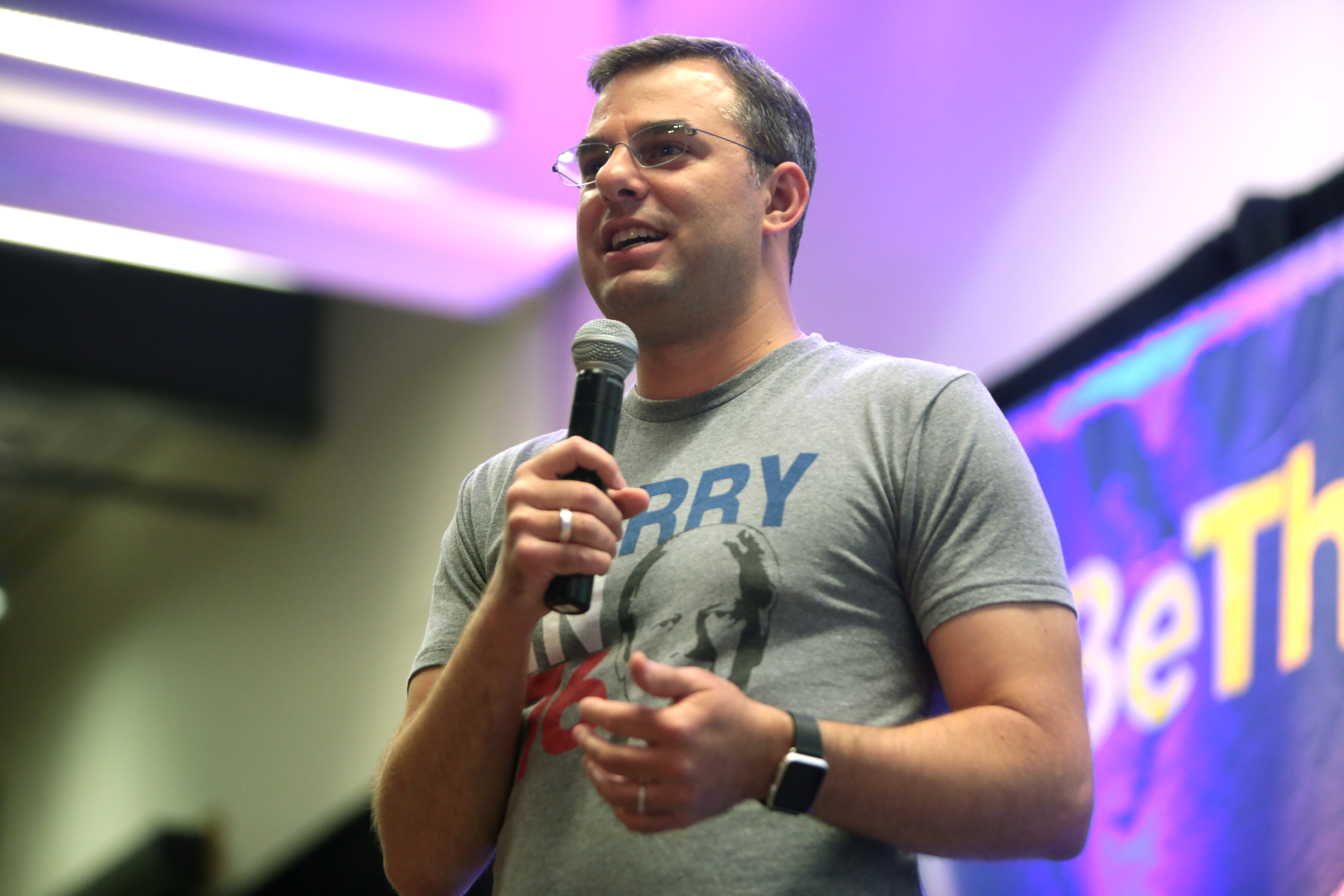 U.S. Congresman Justin Amash speaking at the 2016 Young Americans for Liberty National Convention at the Catholic University of America in Washington, D.C.